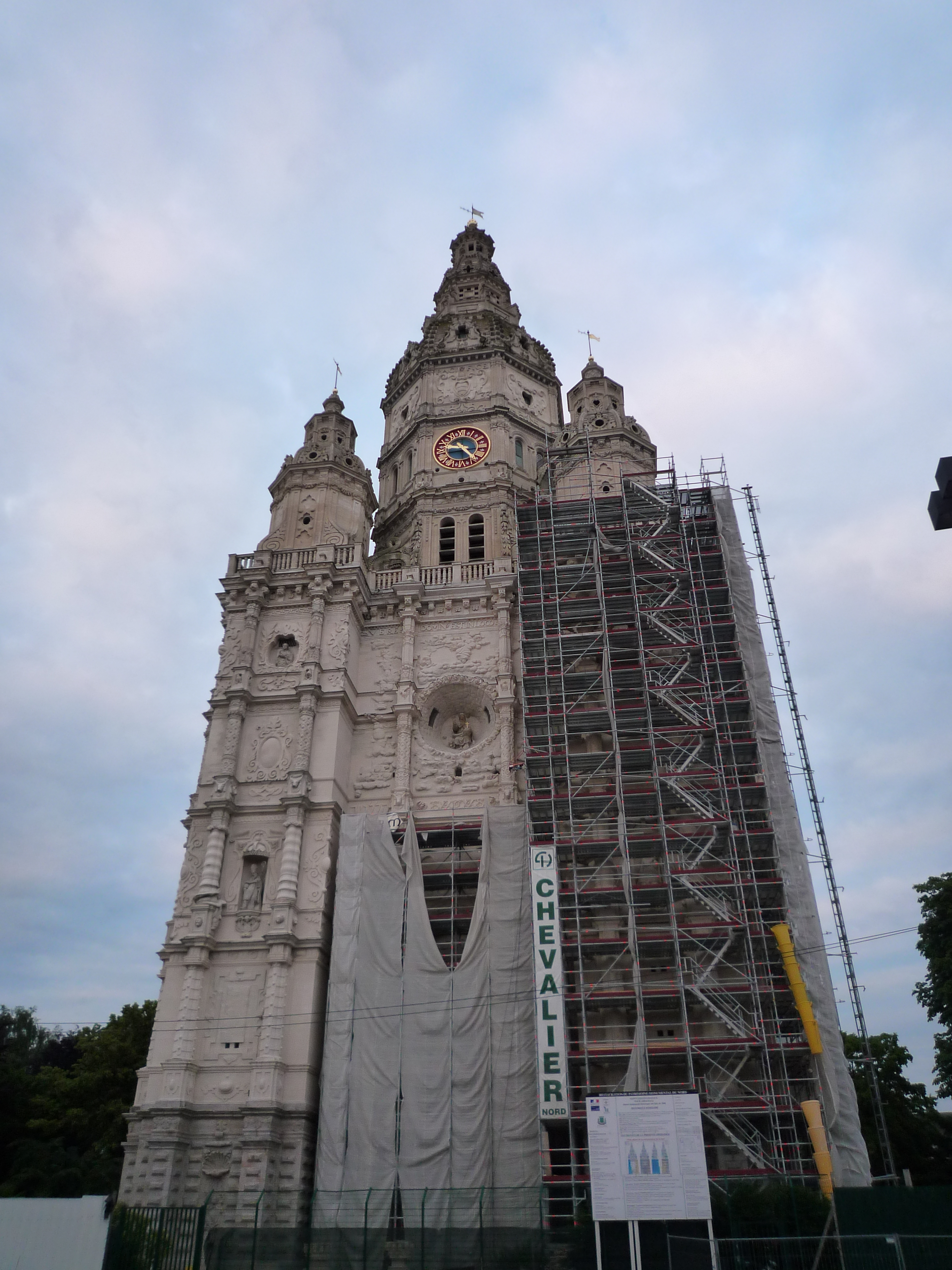 Saint-Amand-les-Eaux, France.